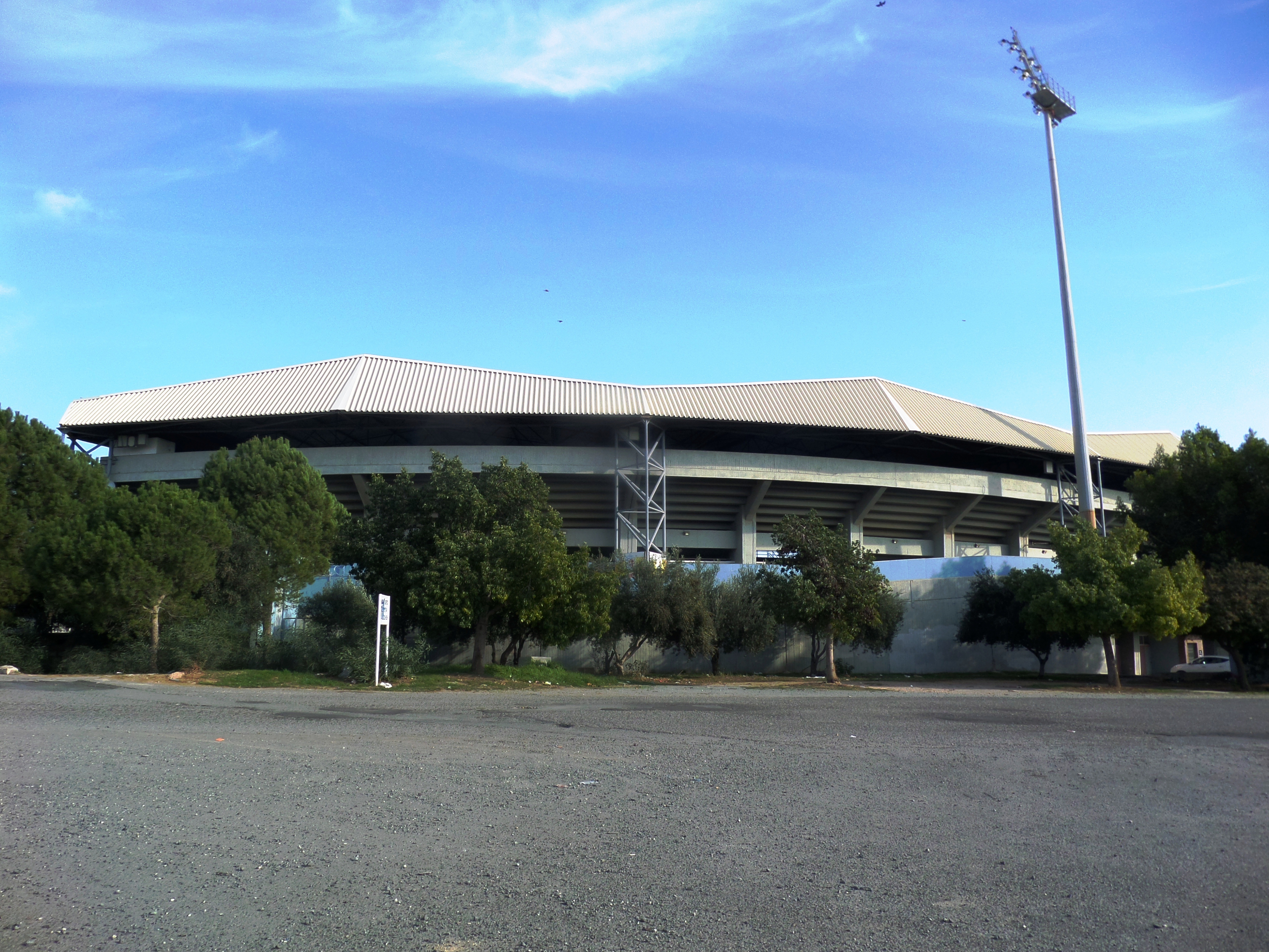 Tsirion Stadium at Limassol